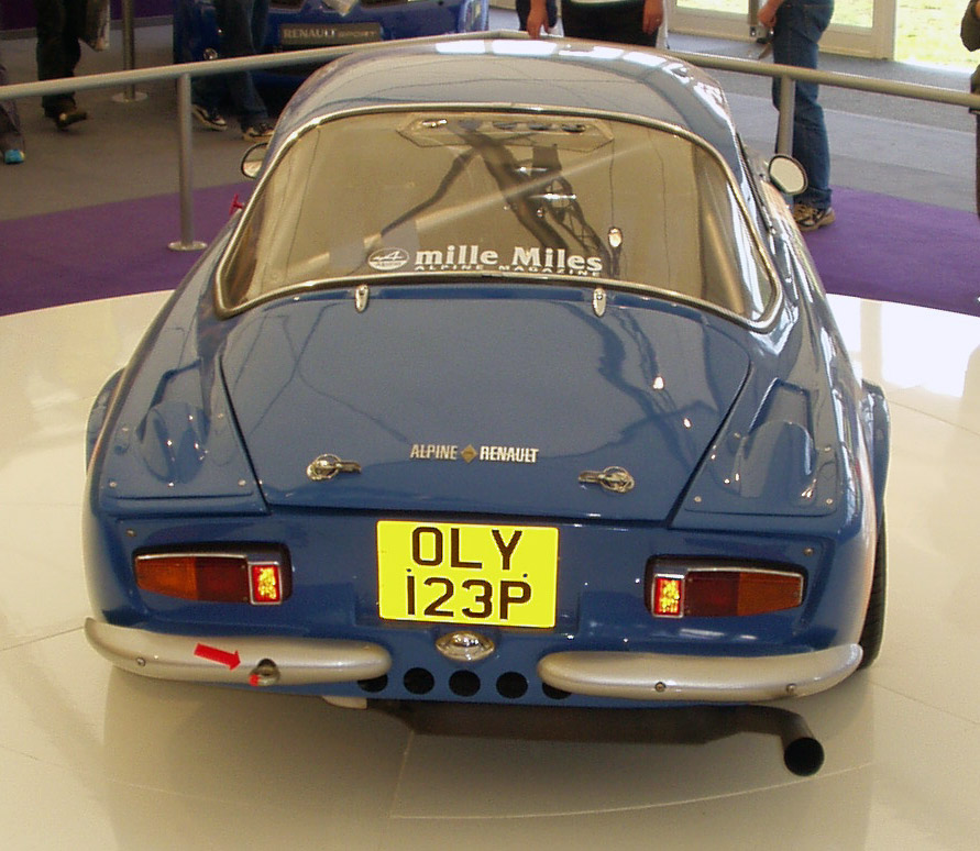 Alpine A110 on display at the Renault stand at the 2006 World Series by Renault, Donington Park, UK.